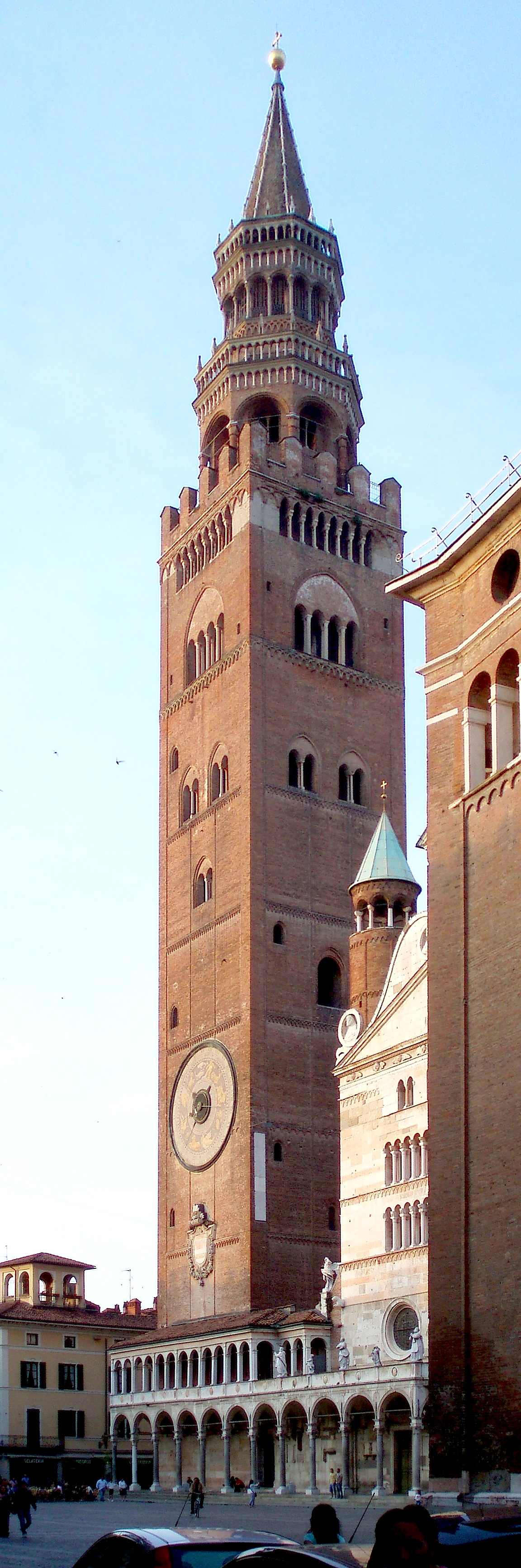 Cremona — clocktower of duomo